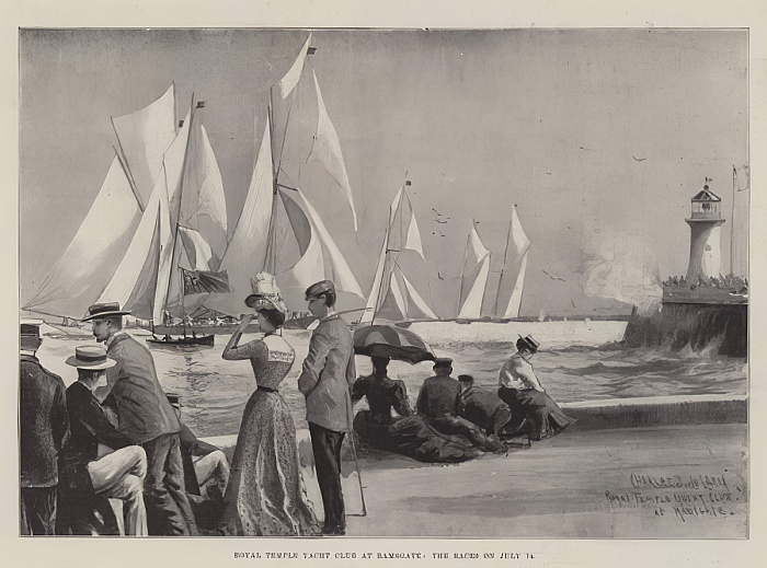 Royal Temple Yacht Club at Ramsgate the Races on 14 July